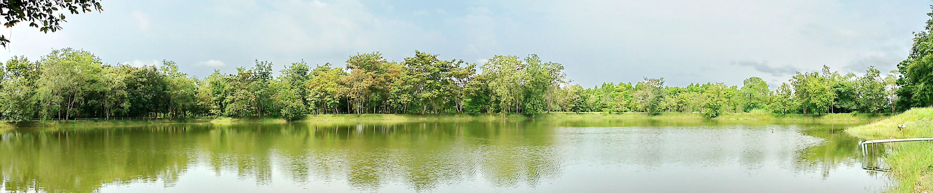 สวนสาธารณะสระแก้ว สระขวัญ จุดกำเนิดชื่อจังหวัดสระแก้ว ที่ตั้ง : ถนนเทศบาล2 ข้างสำนักงานเทศบาลเมืองสระแก้ว ต.สระแก้ว อ.เมืองสระแก้ว จ.สระแก้ว